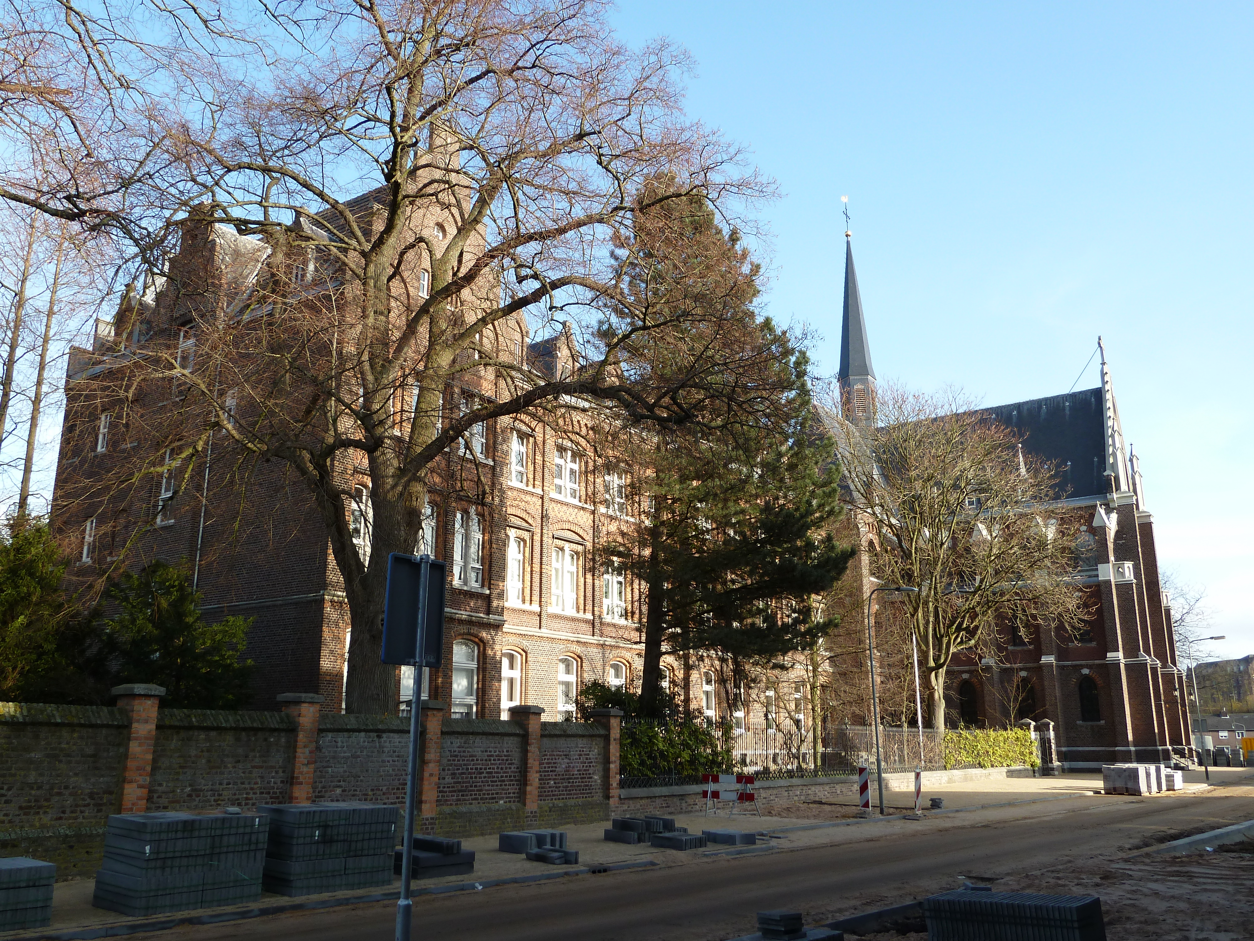 Huize Loreto, Simpelveld, Limburg, the Netherlands